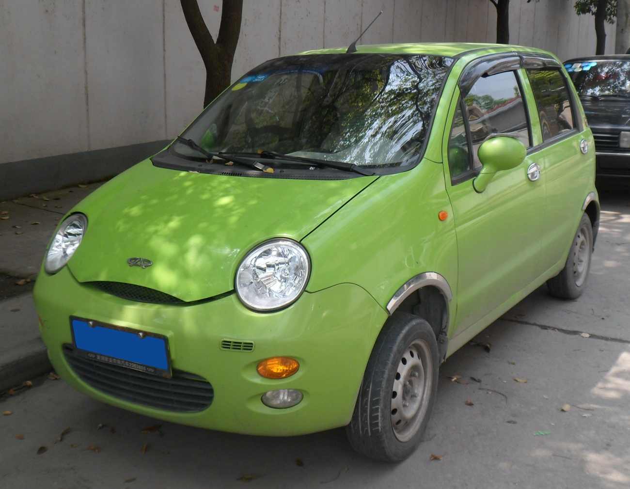 Chery QQ3 photographed in Shanghai, China.